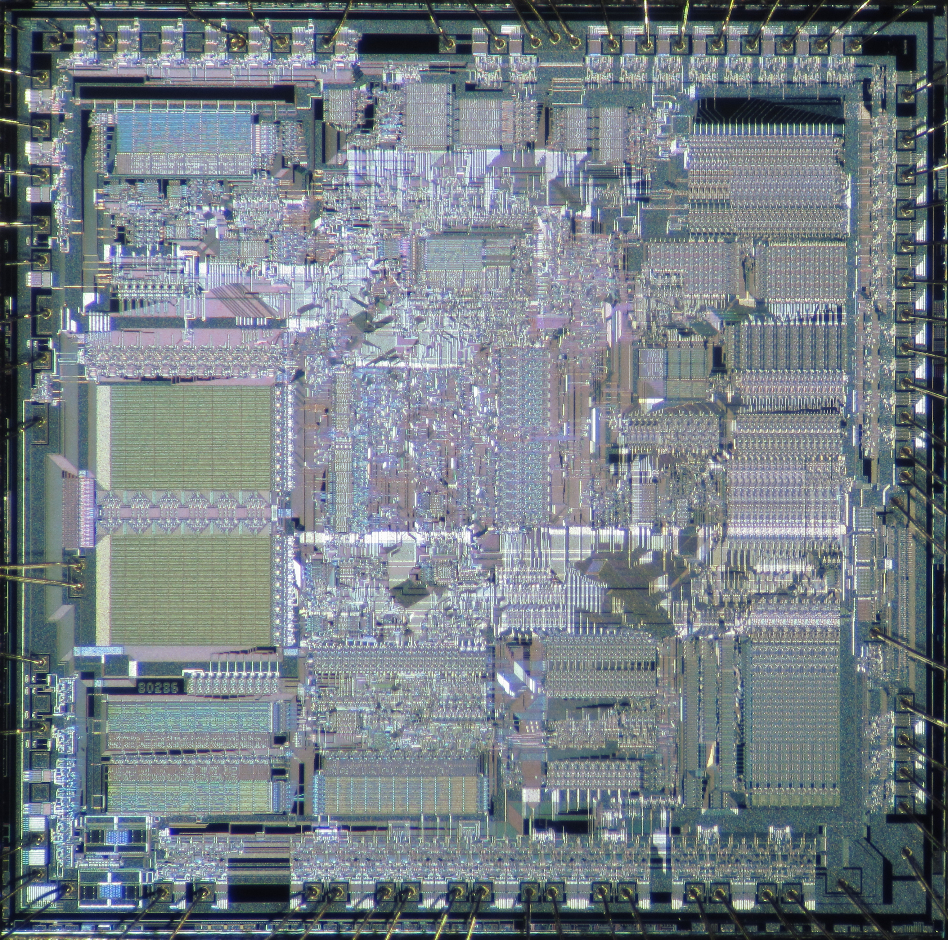 Die shot of Intel 80286 microprocessor (8 MHz version).